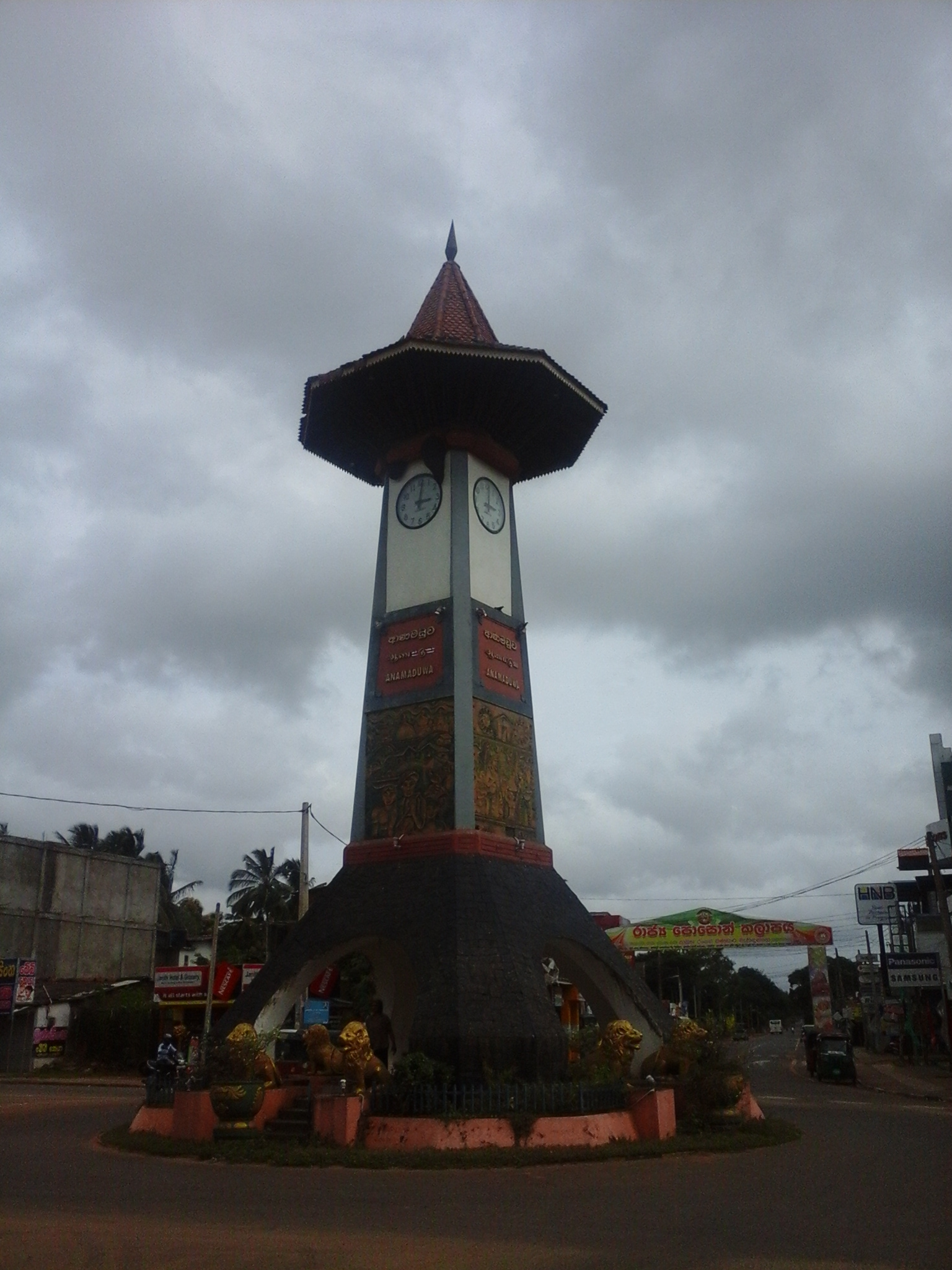 Anamduwa Clock Tower